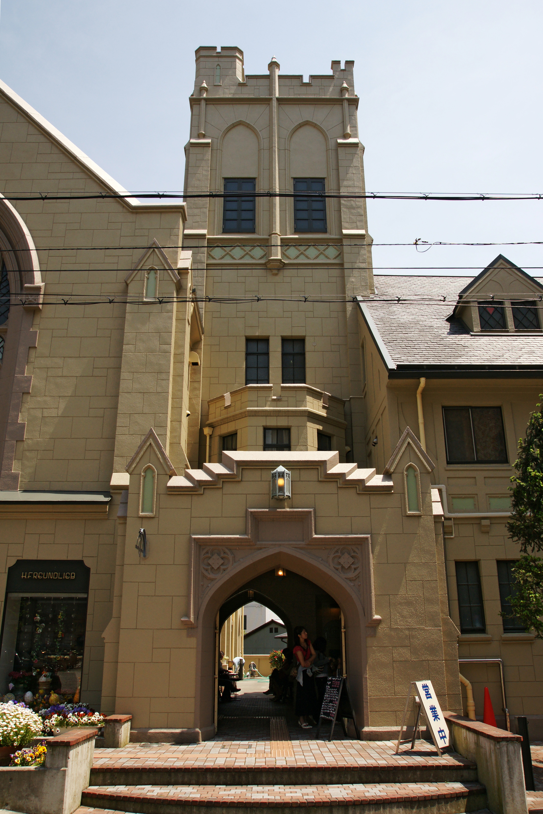 Former Kobe Union Church (Cafe FREUNDLIEB) in Kobe, Hyogo prefecture, Japan